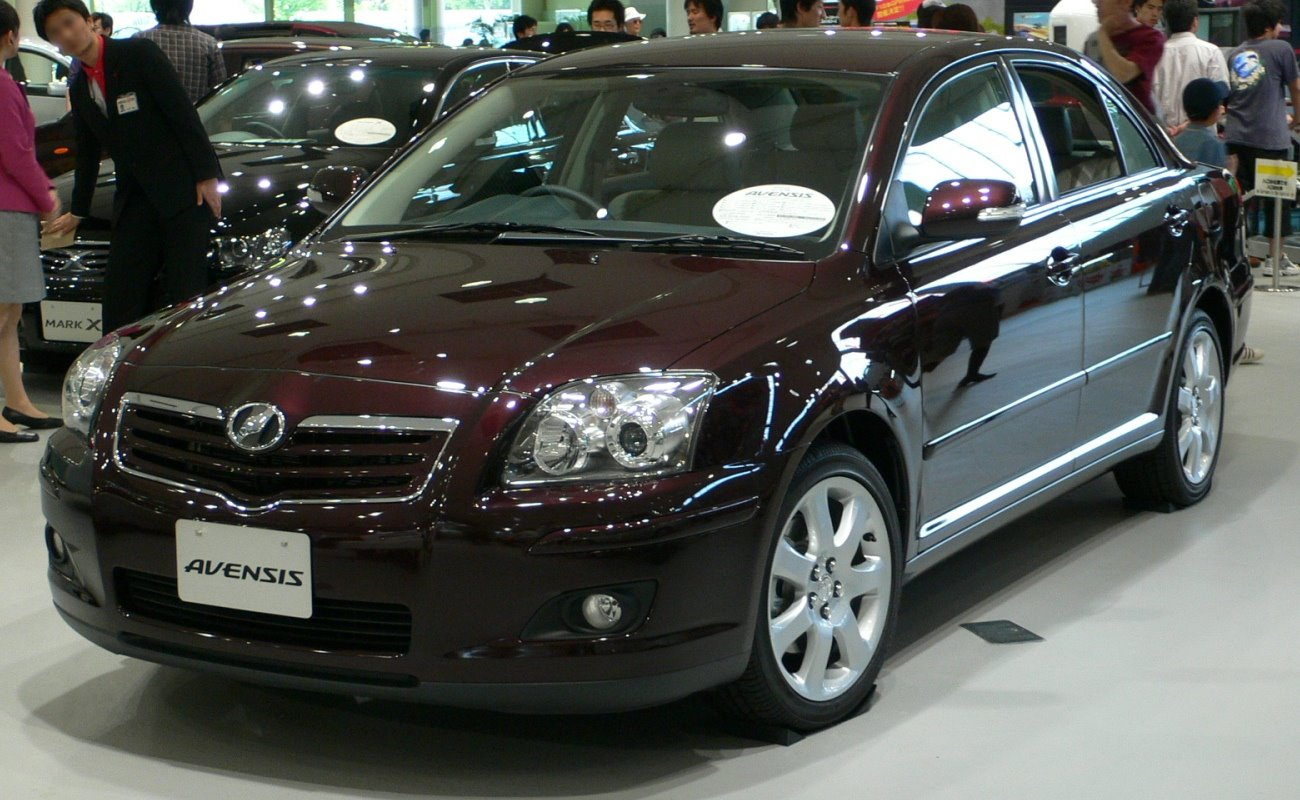 Toyota_Avensis(2006 - )photographed in MEGAWEB